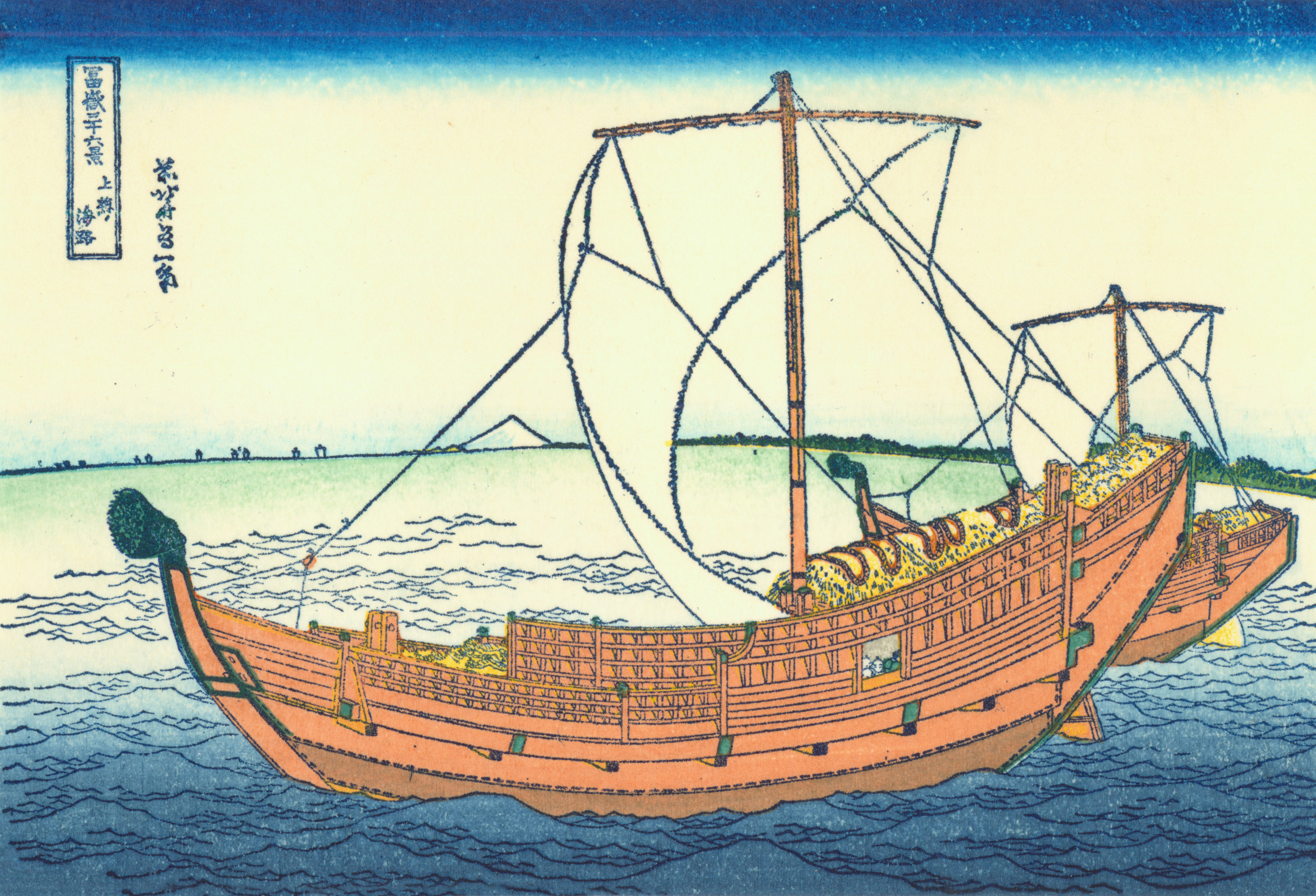 Part of the series Thirty-six Views of Mount Fuji, no. 17.